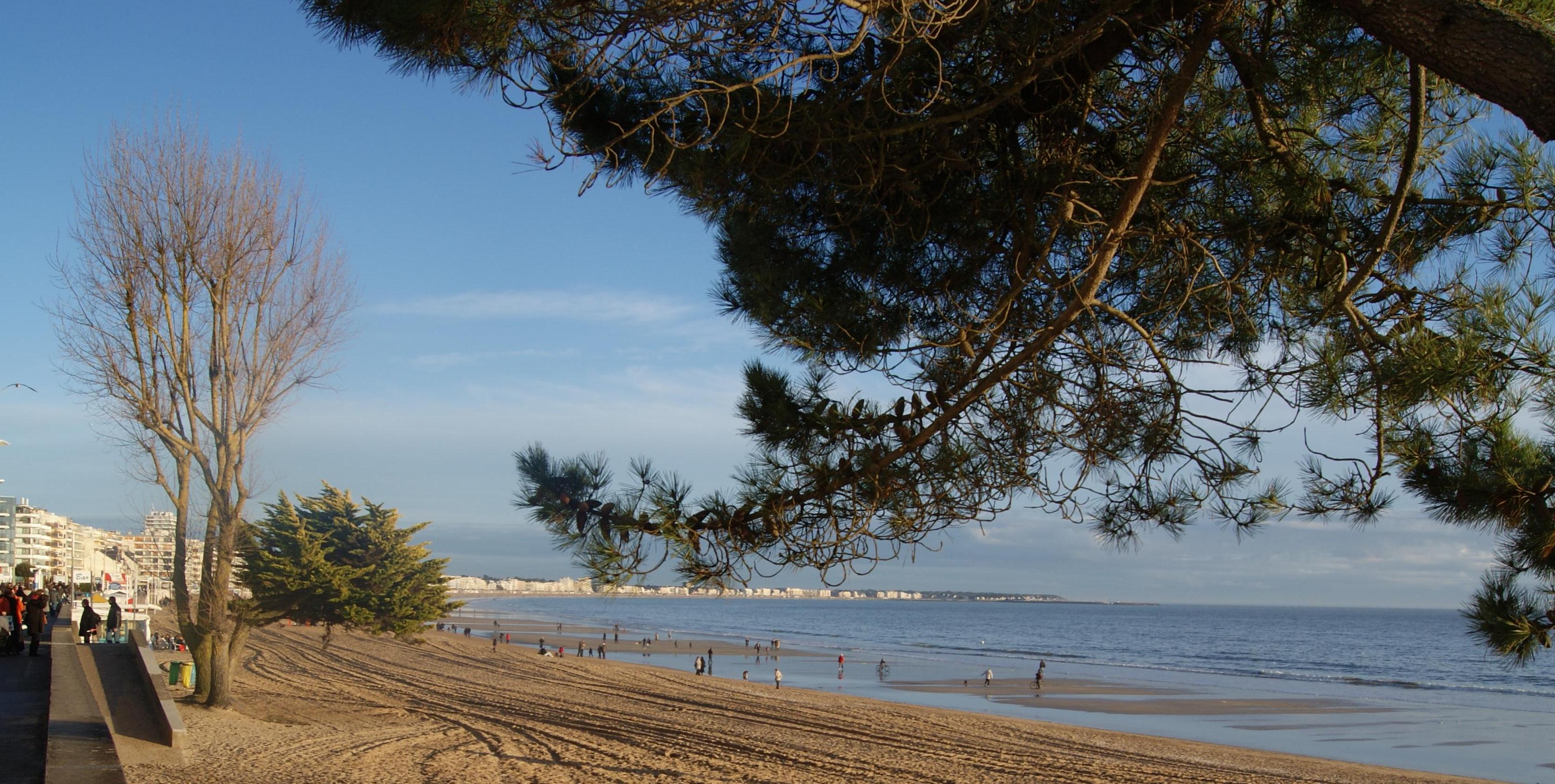 Bay of La Baule - Le Pouliguen (France)